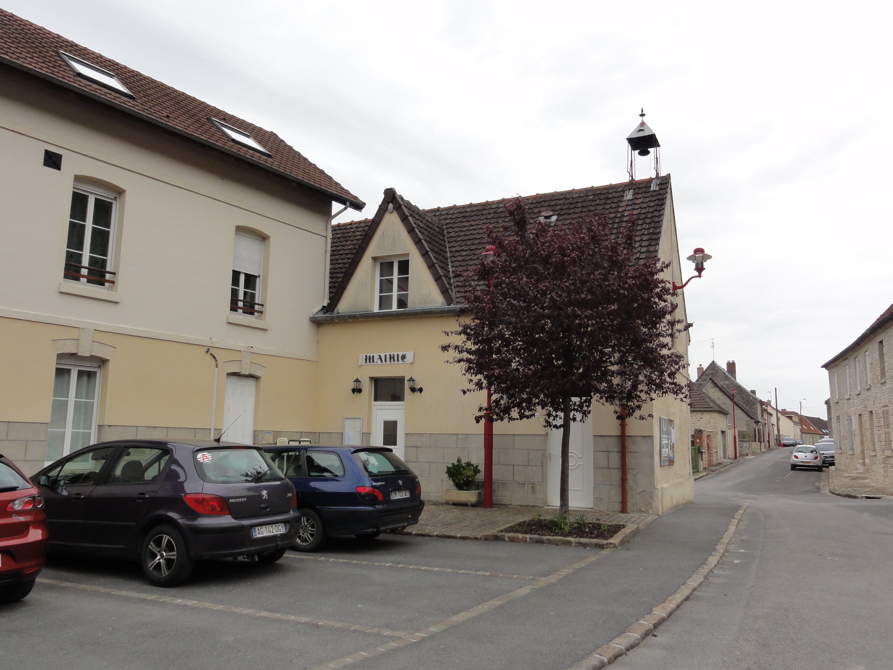 Veslud (Aisne) mairie